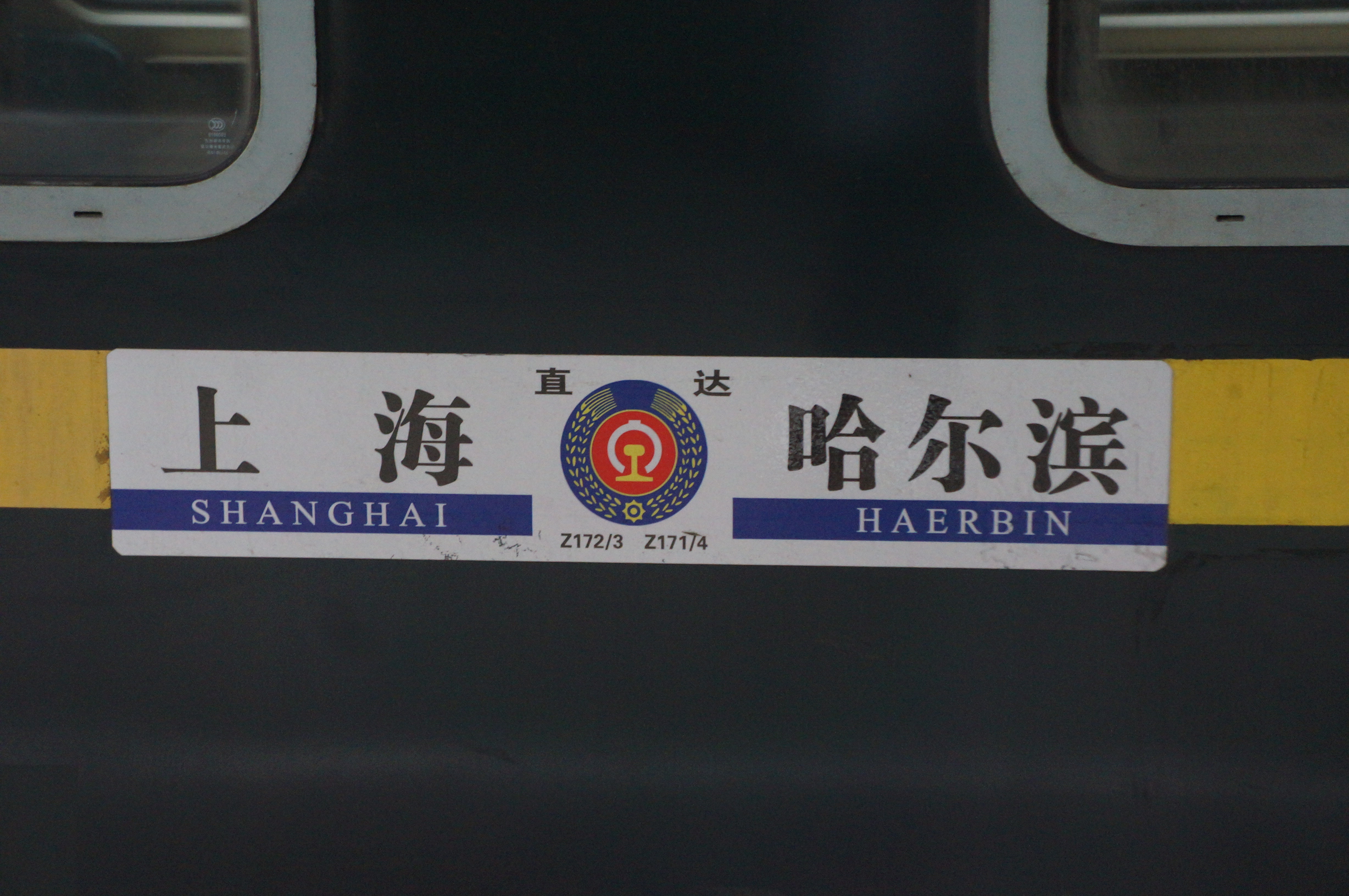 Z171 2 3 4 infoboard in 201705. The train was pulled to depot right at the moment I click the shutter